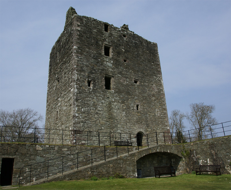 Cardoness Castle, Dumfries and Galloway, Scotland